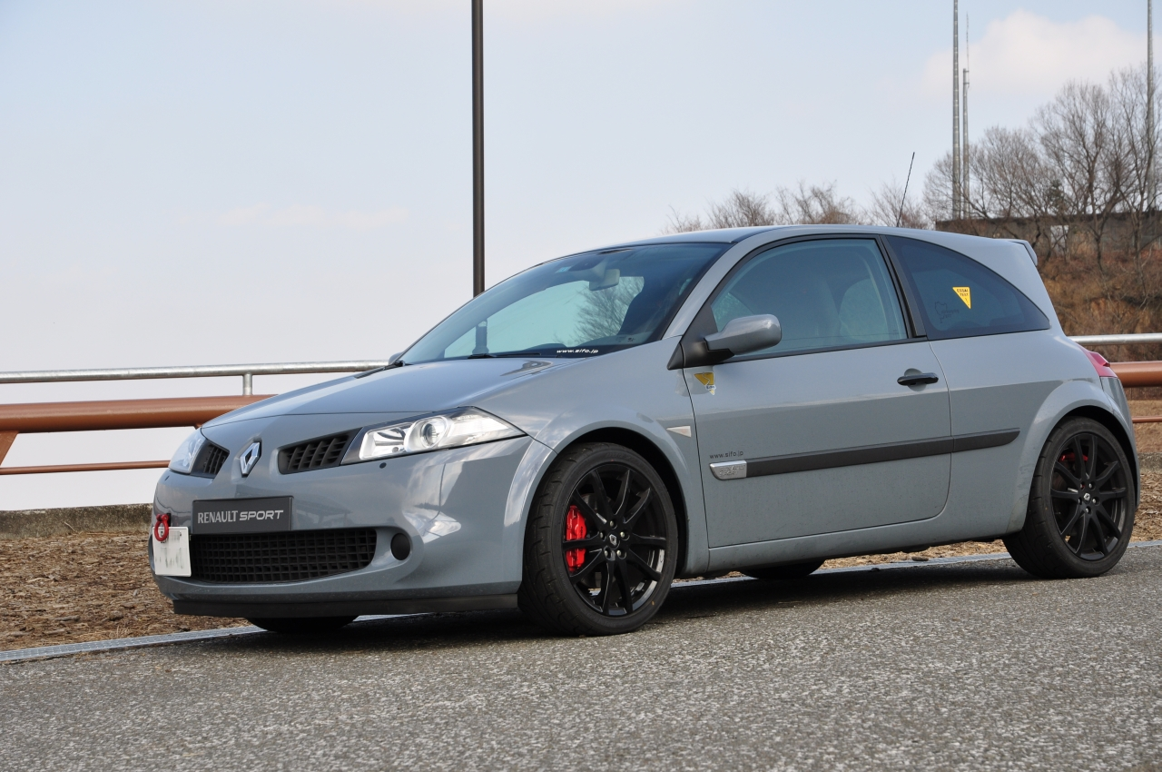 Renault Megane R26.R